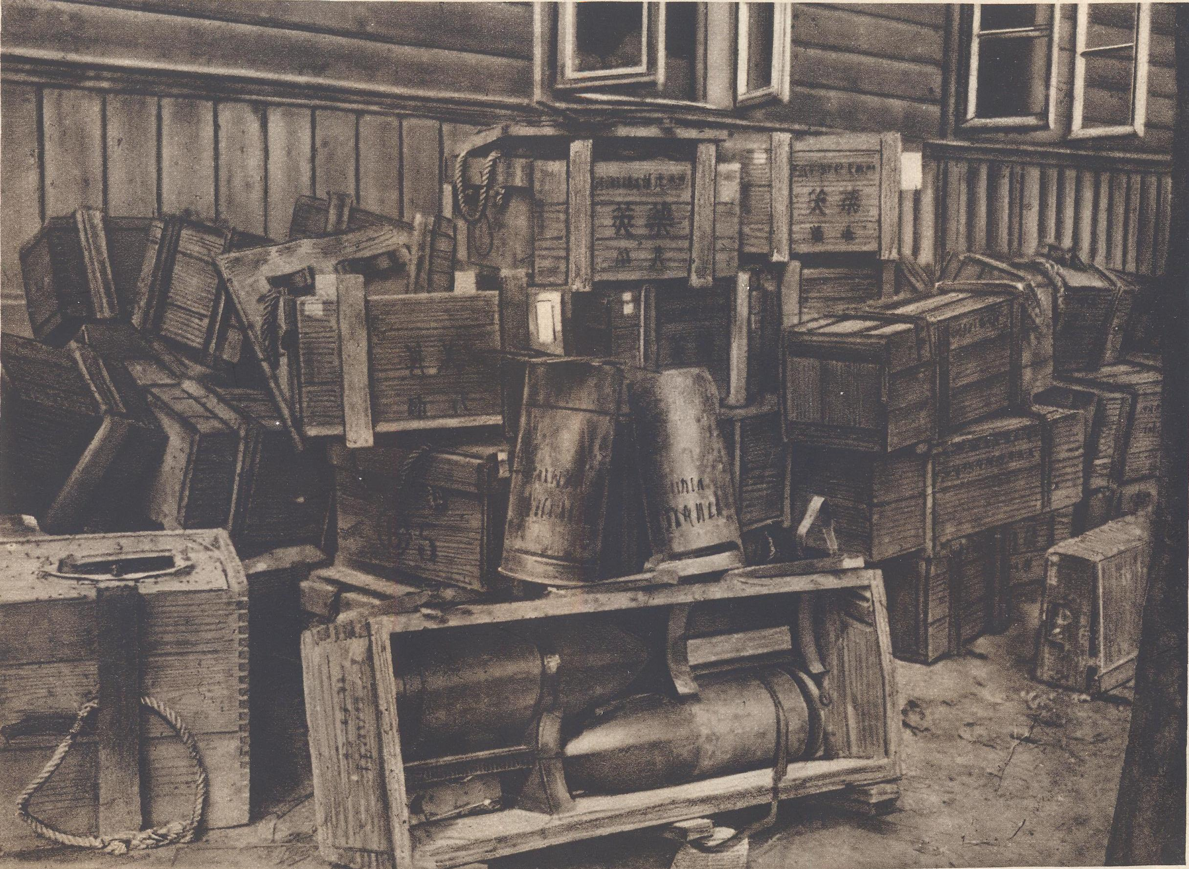 At the East Front. Captured Russian ammunition of Japanese Manufacture. "Album de la Grande Guerre" №10, 1915